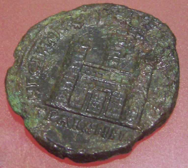 Coin from Ulpia Augusta Traiana (Stara Zagora), central gate, in the collection of Stara Zagora's Regional history museum